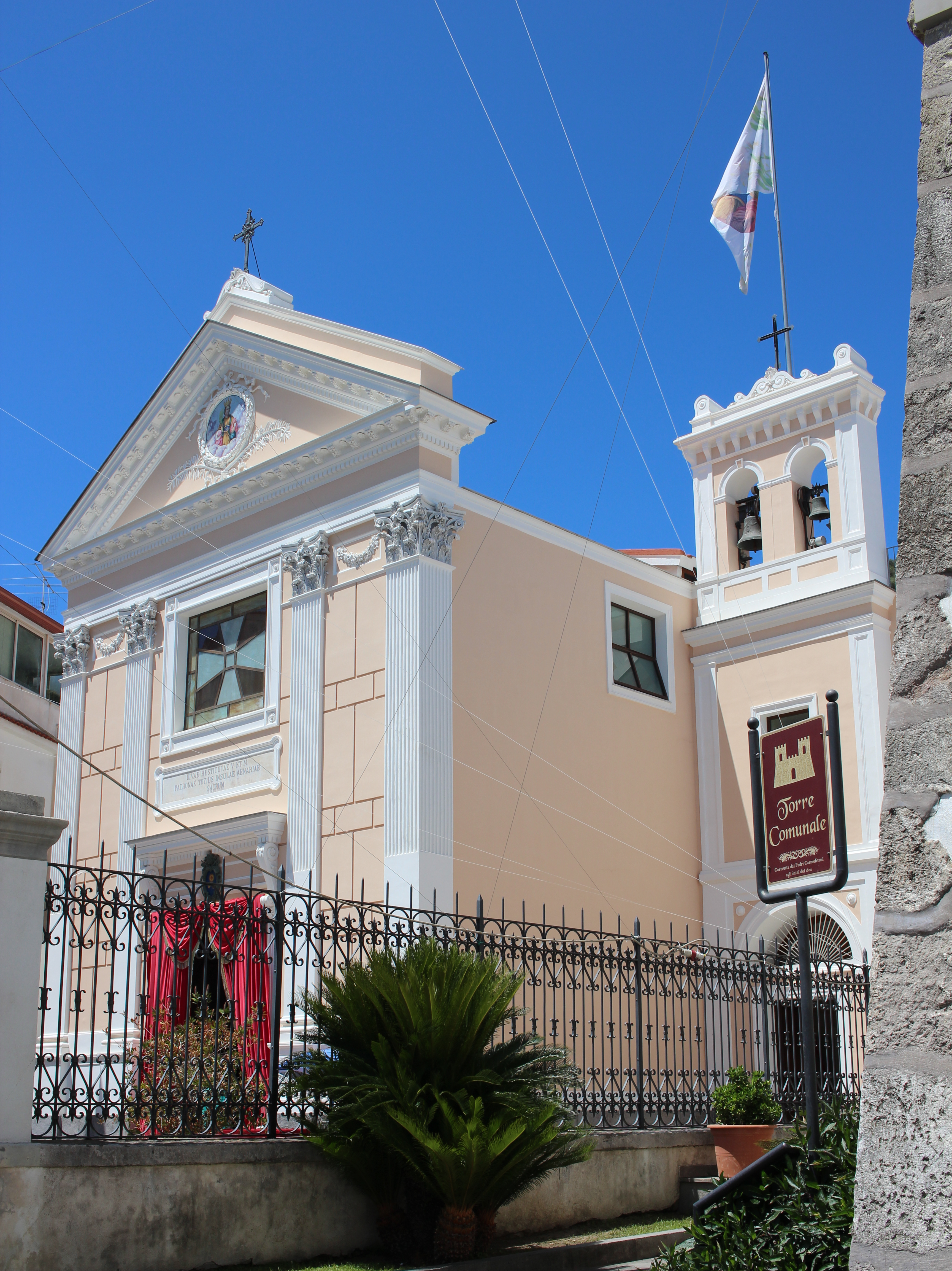 The church of St. Restituta (Chiesa di Santa Restituta) in Lacco Ameno, which has been restored several times over the centuries.